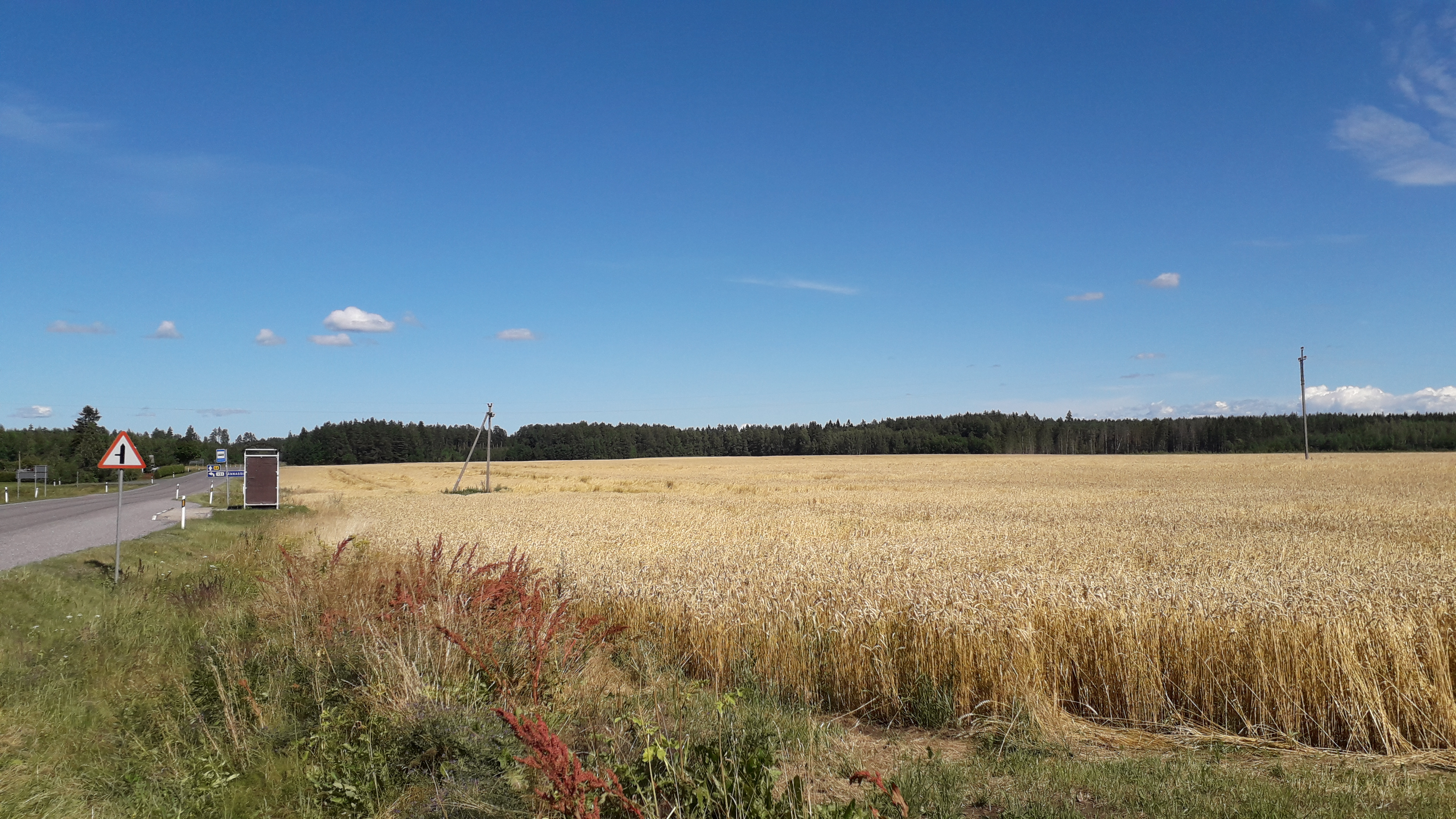 Põlva vald, Meemaste